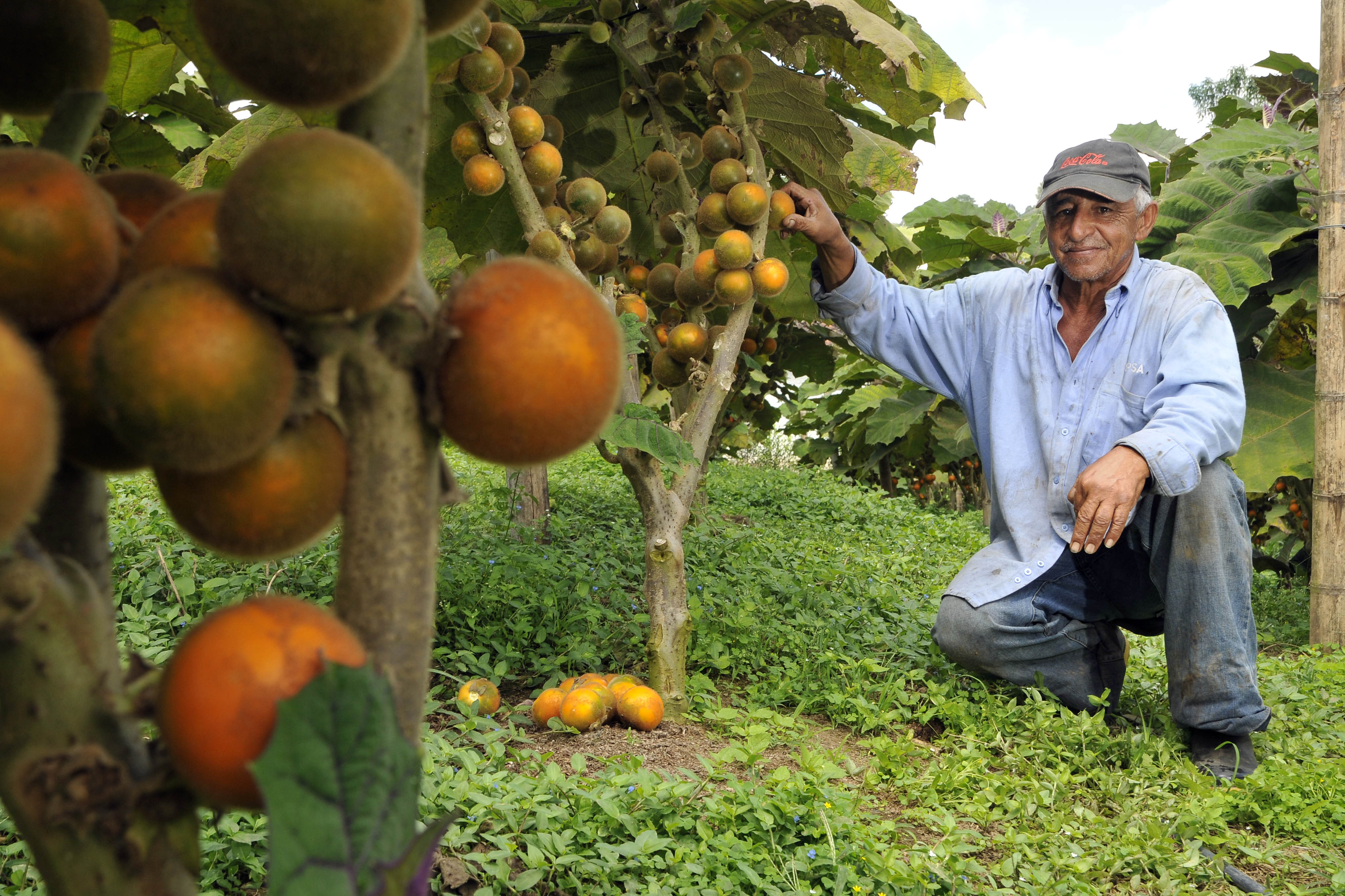 Pic by Neil Palmer (CIAT). A lulo farmer with his crop of fruit growing in Darién, Colombia.